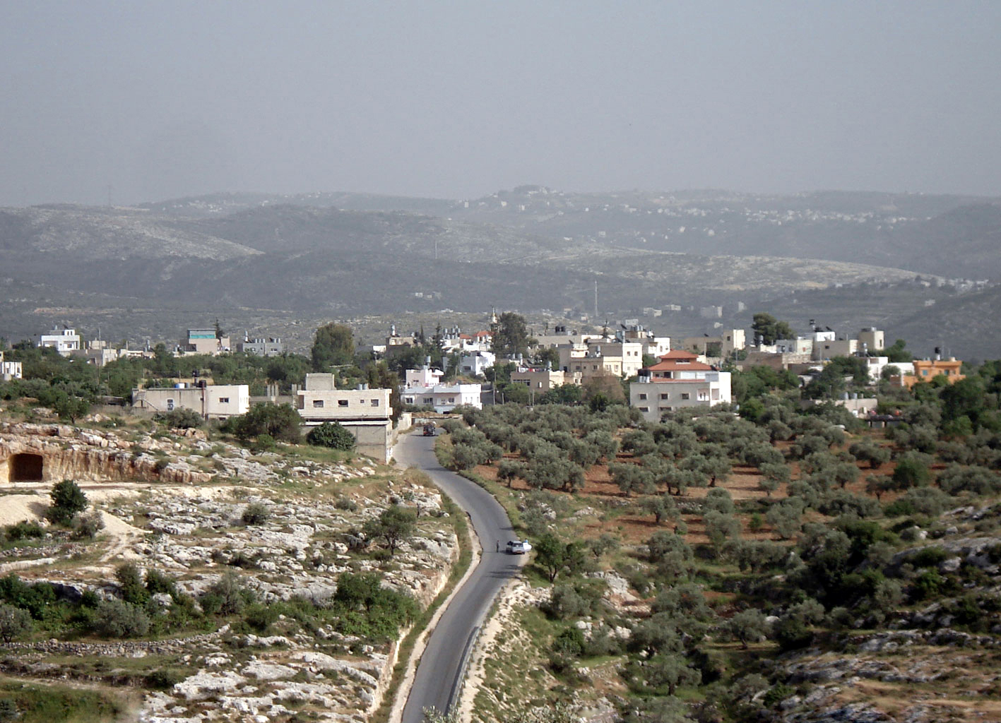 the northern entrance of Bil;in , a village of Palestine .